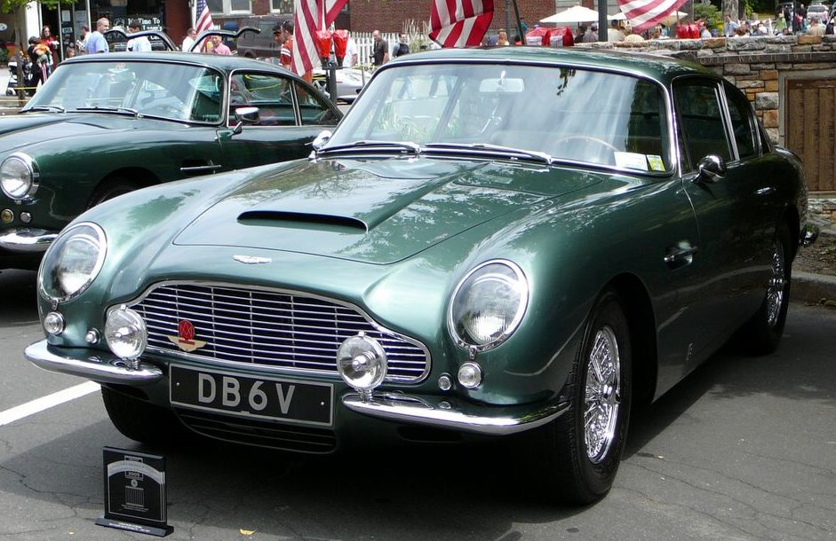 1967 DB6 Vantage.